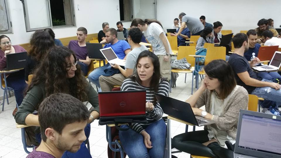 "Wikipedia: Skills for producing and consuming knowledge" - a new for-credit elective course at Tel Aviv University for all B.A. students. First session.